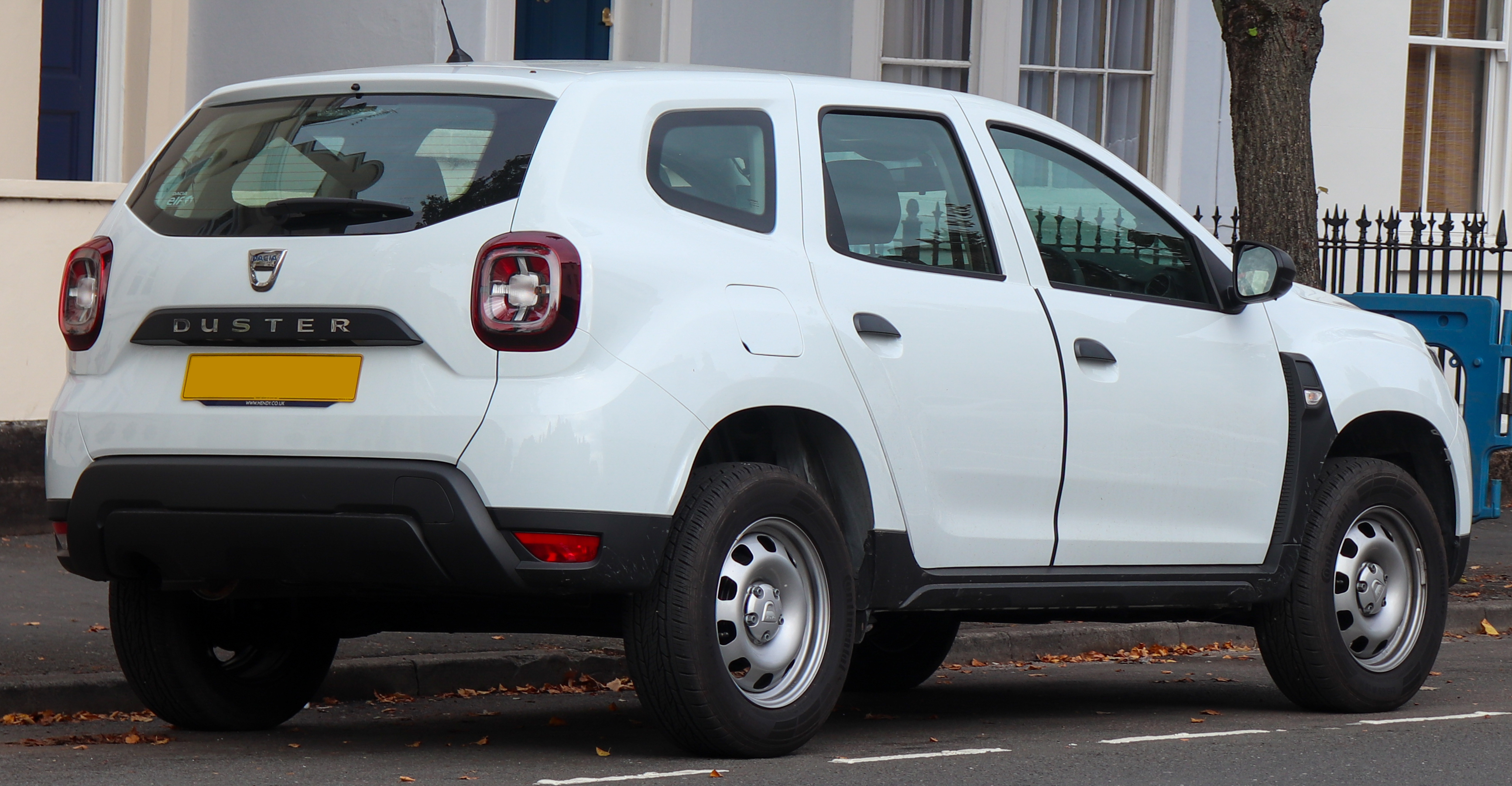 2019 Dacia Duster Access SCE 4X2 1.6 Rear Taken in Leamington Spa